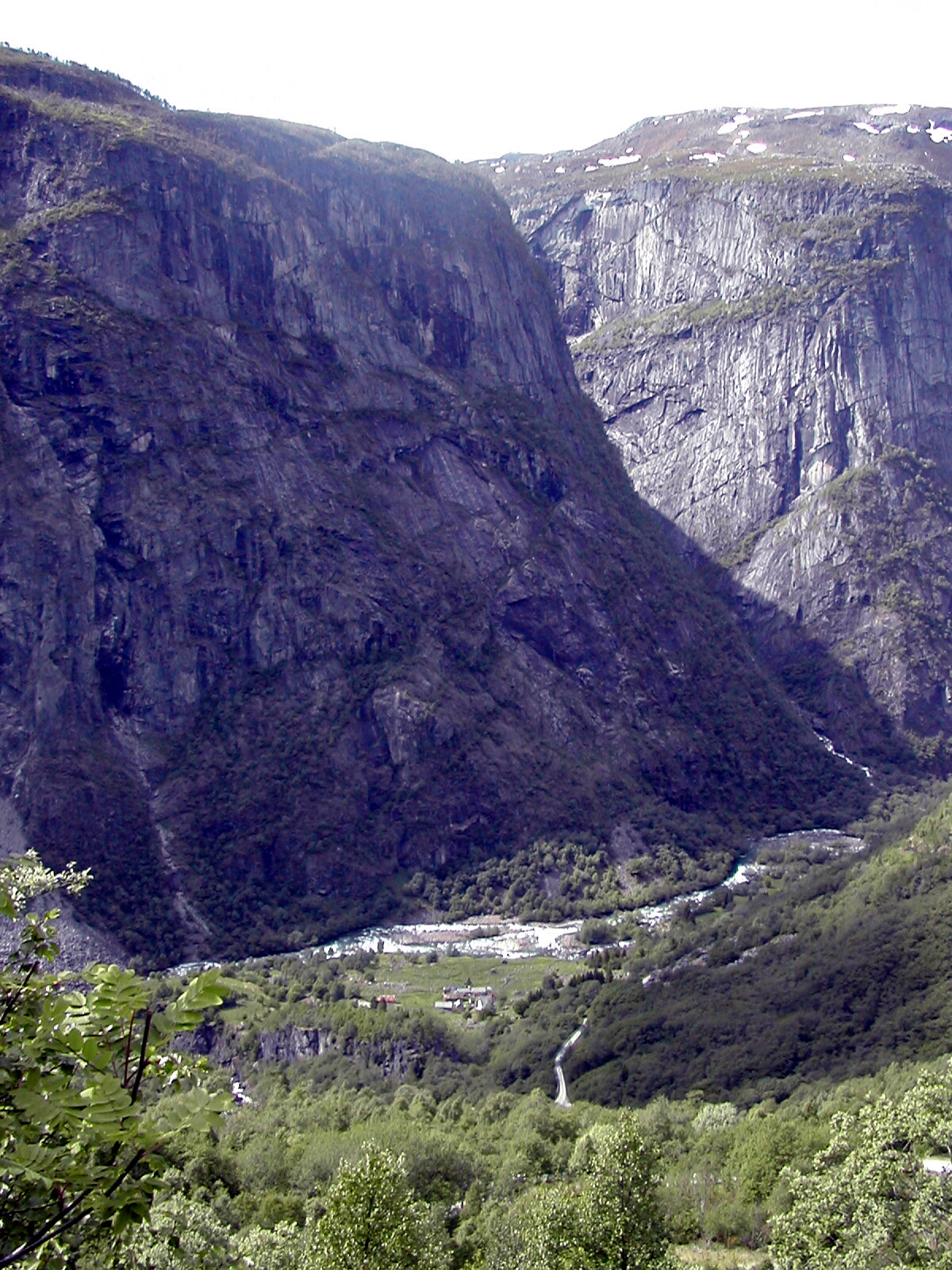 The river Veig located in the county Hordaland, near Hardangervidda in Norway. The picture is taken in the valley Hjølmadalen.